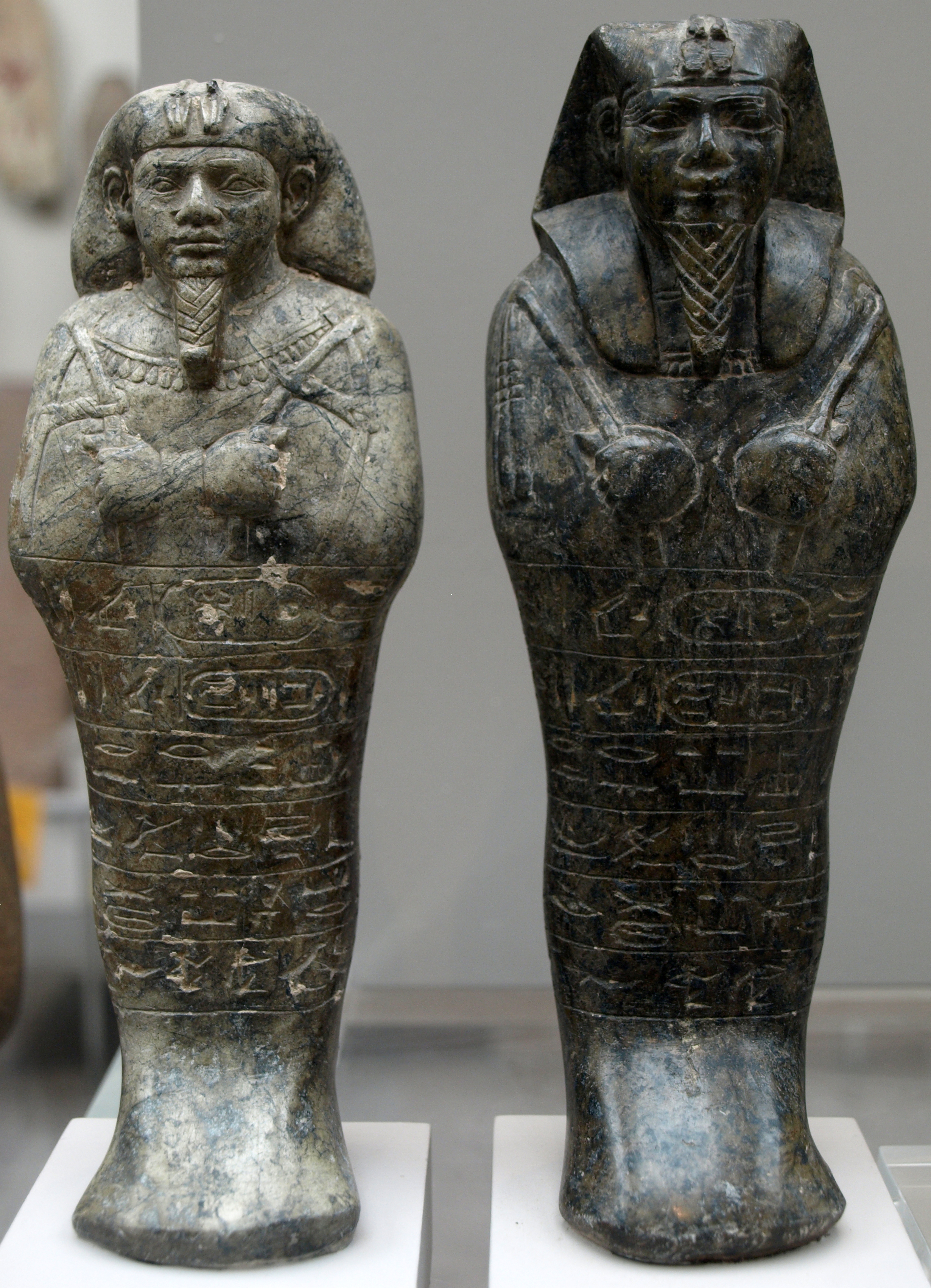 A pair of steatite shabtis of the pharaoh Senkamanisken. From Nuri, pyramid No. 3, circa 643-623 BC.